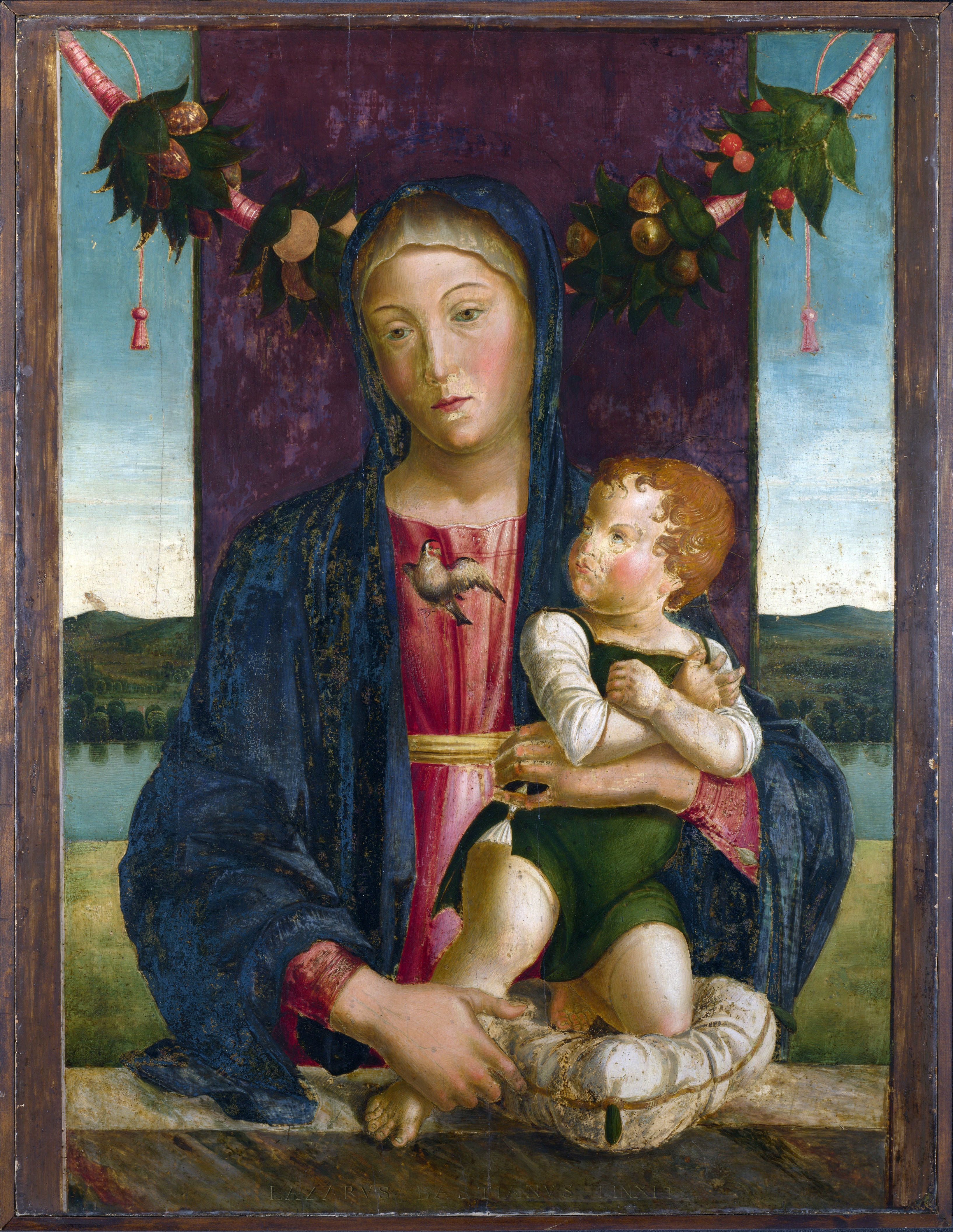 The goldfinch symbolizes passion